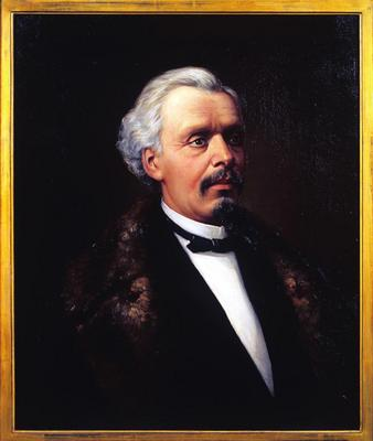 Louis de Weck (1823–1880), Councillor of State of Fribourg (Switzerland). Oil on canvas by Joseph Reichlen, c. 1900. Museum für Kunst und Geschichte Freiburg.